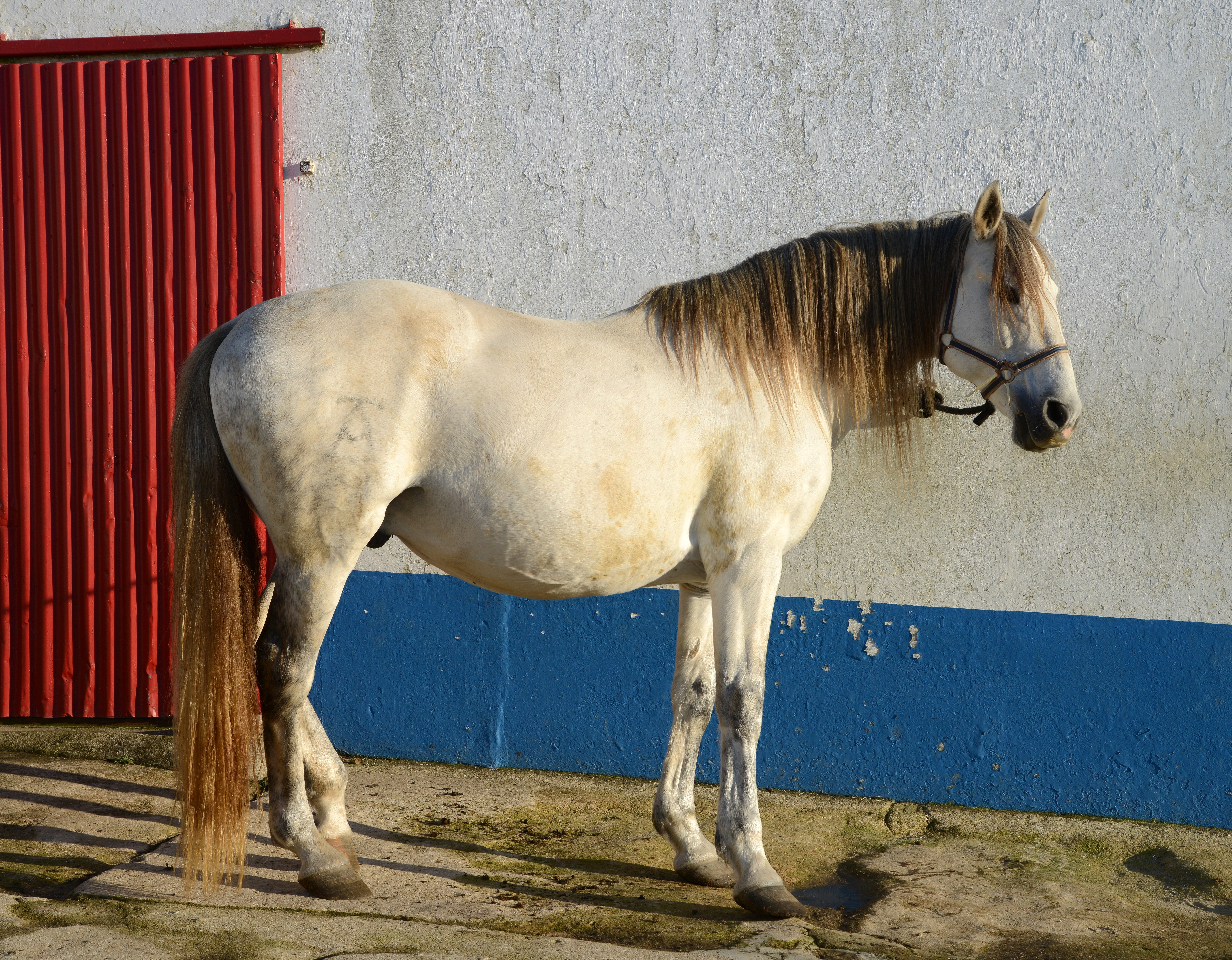 Lusitano horse, Portugal